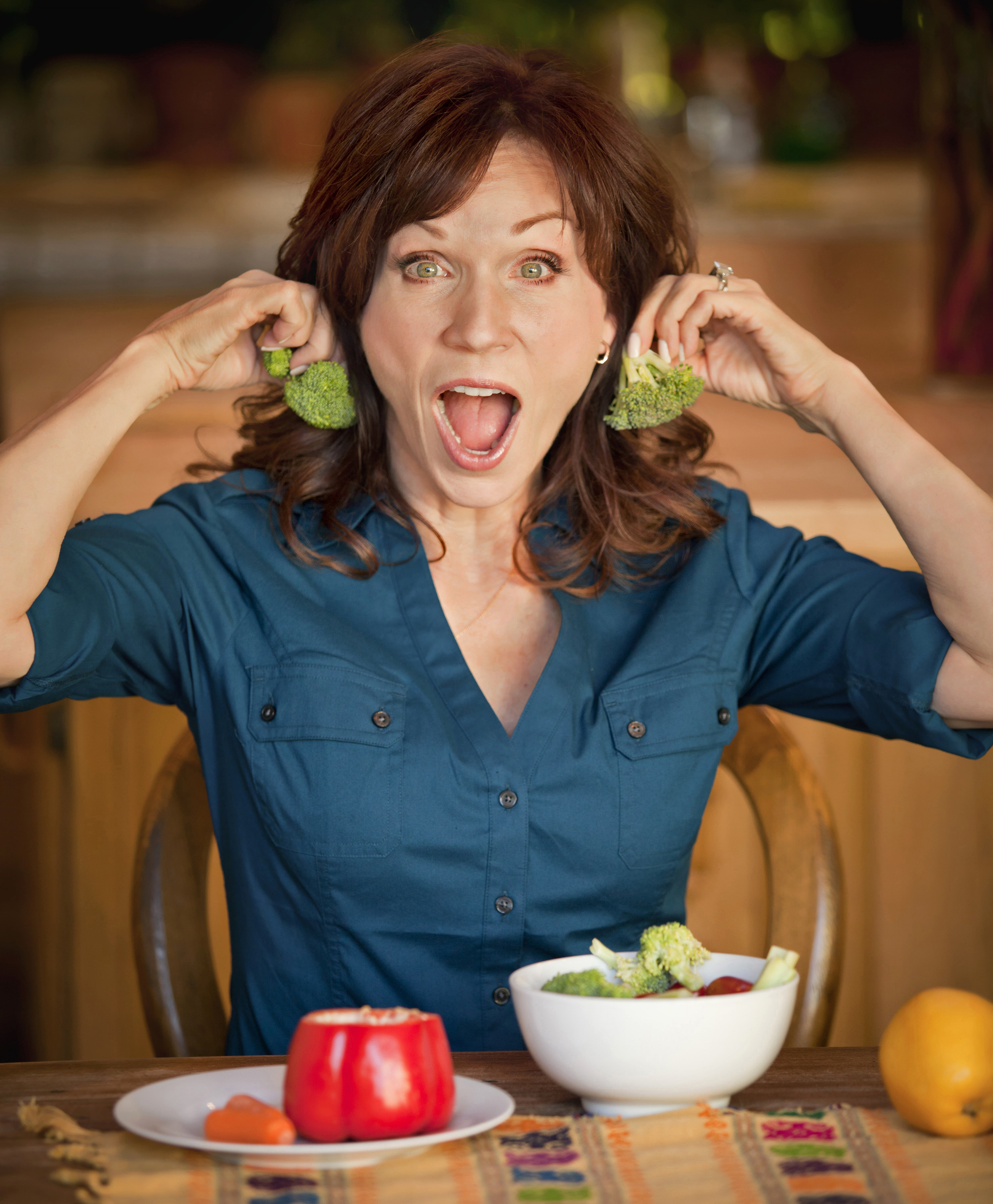 Picture of Marilu Henner, taken July 23, 2010.